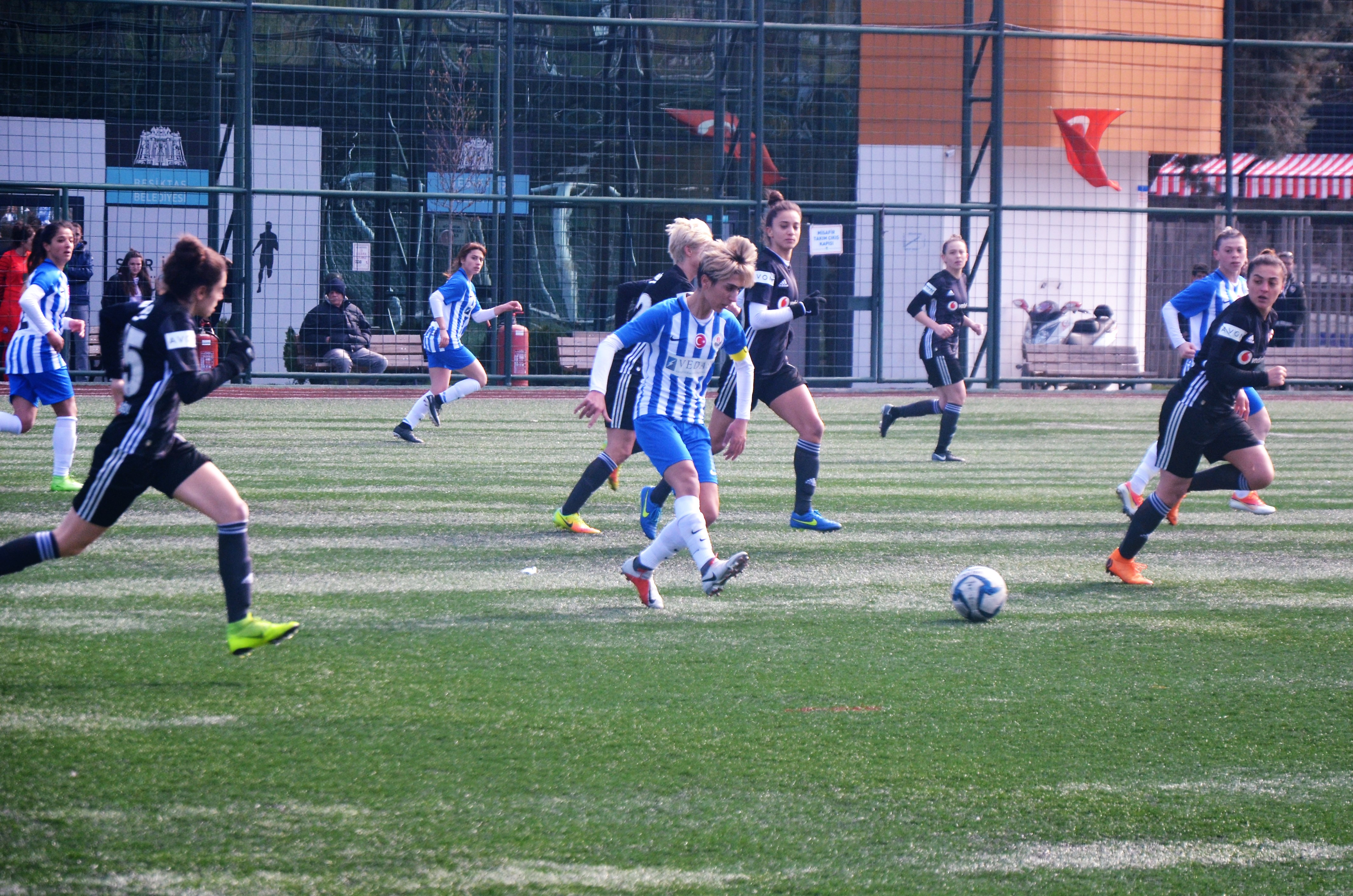 Beşiktaş J.K. (black/gray) vs Hakkarigücü Spor (blue/white) match in the 2018-19 Turkish Women's First Football League in the İsmet İnönü Stadium, Istanbul.